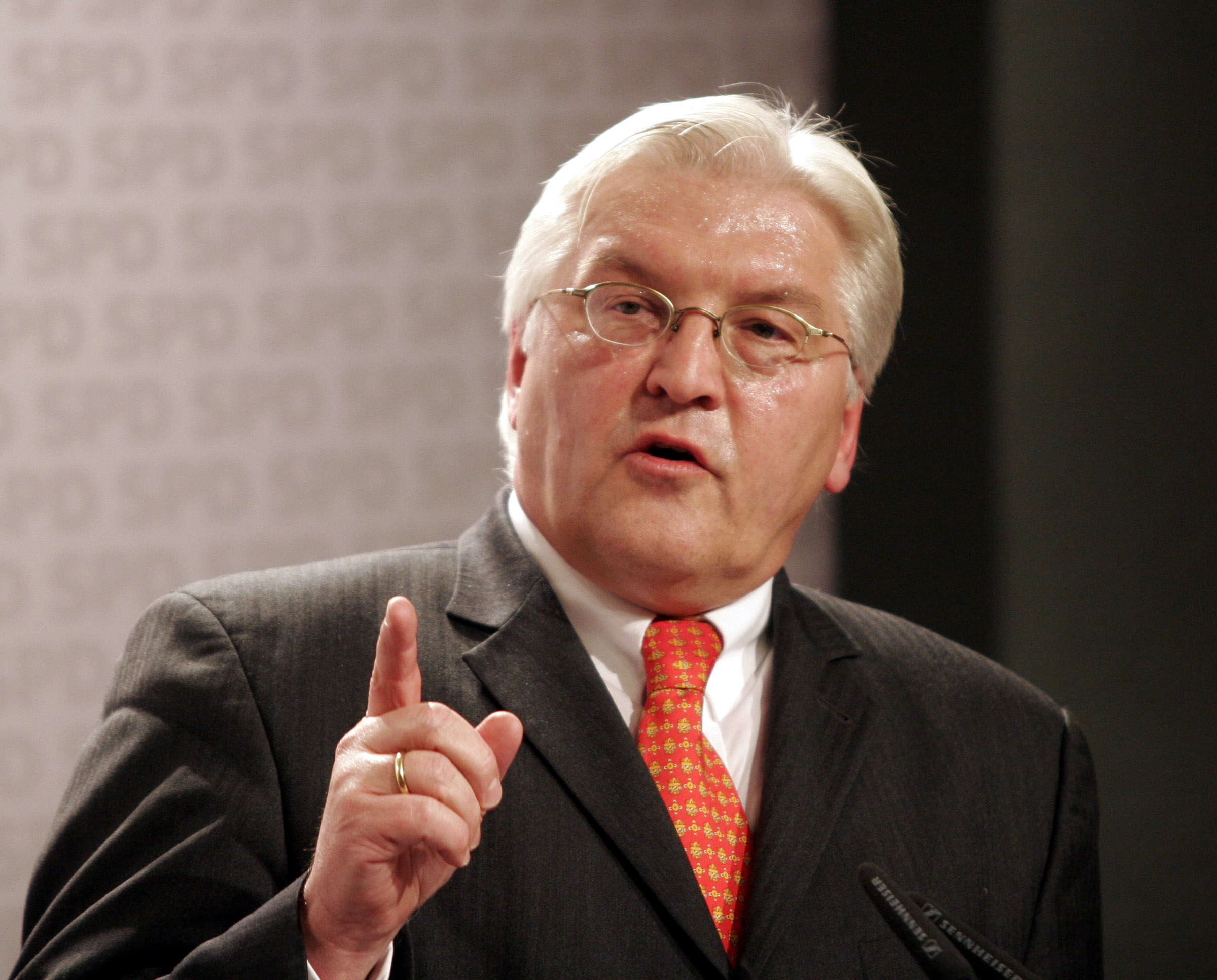 Frank-Walter Steinmeier, foreign minister (Secretary of State) of Germany and Vice-Chancellor of Germany, during an election campaign in Bensheim (Hesse, Germany)